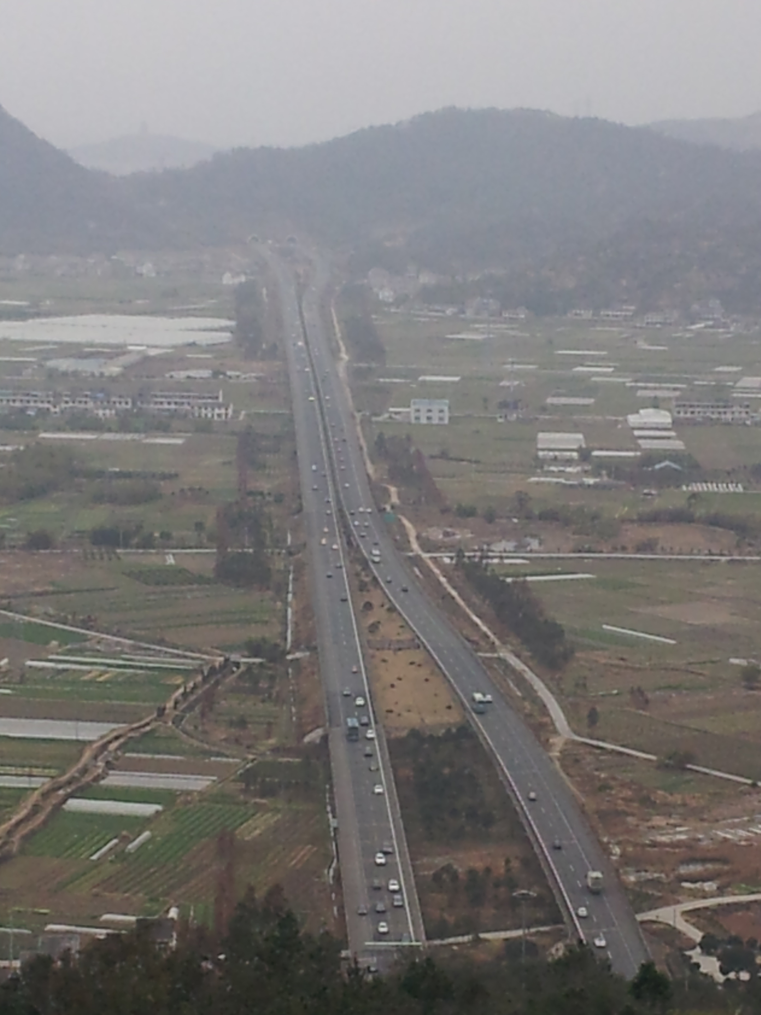 Ningbo_Taizhou_Wenzhou_Highway_Ruian